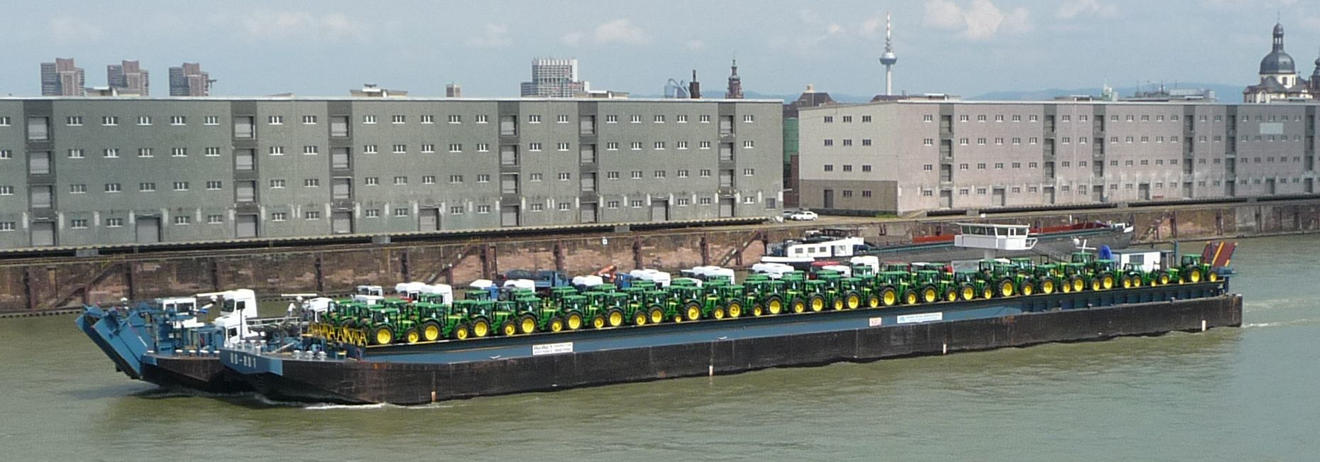 Mannheim